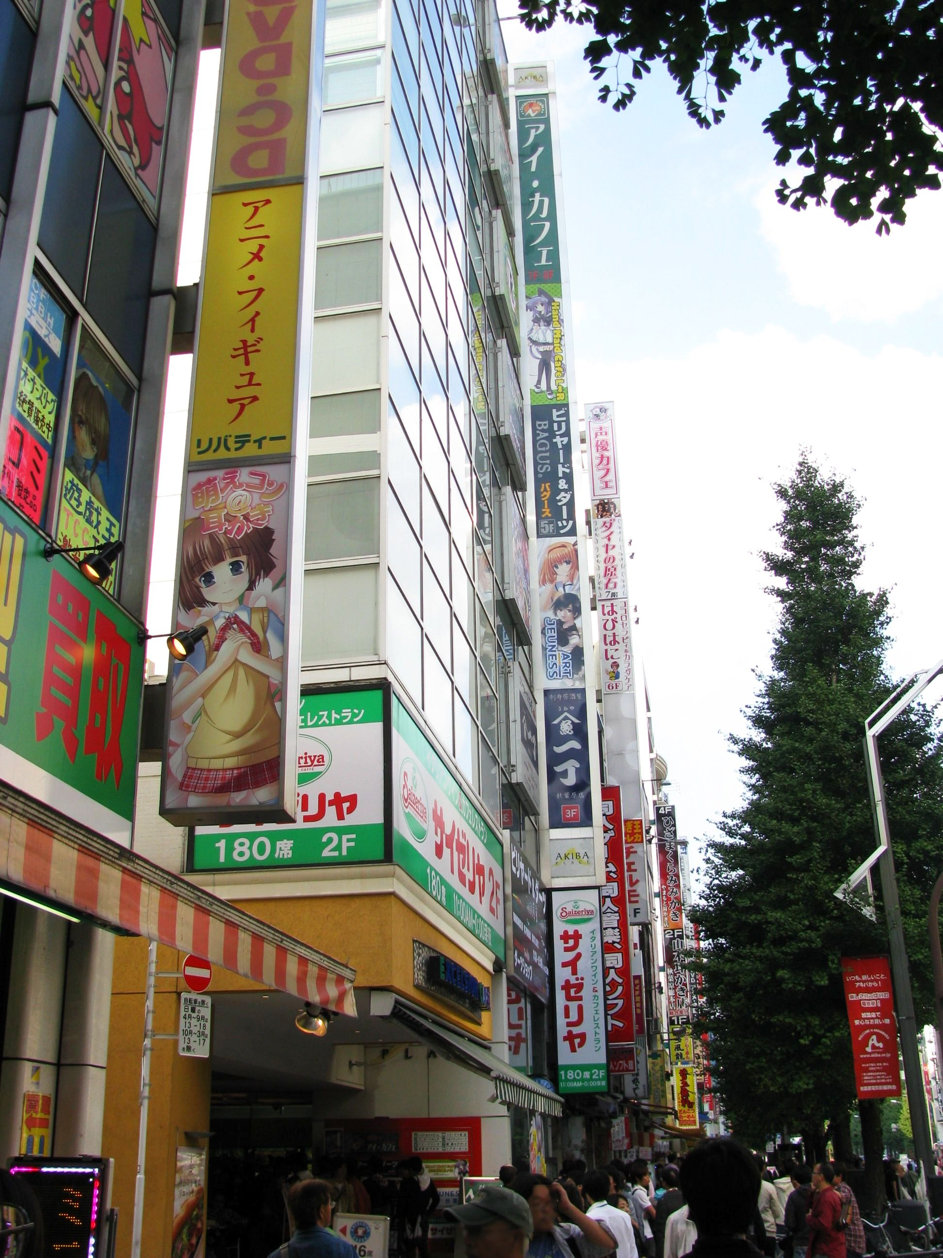 The signboards in Akihabara. This location is in Chiyoda, Tokyo, Japan.